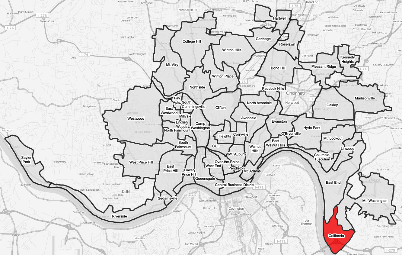 A map of the neighborhood of California within Cincinnati, Ohio. Neighborhood lines are based on information from This street map is derived from a free map.